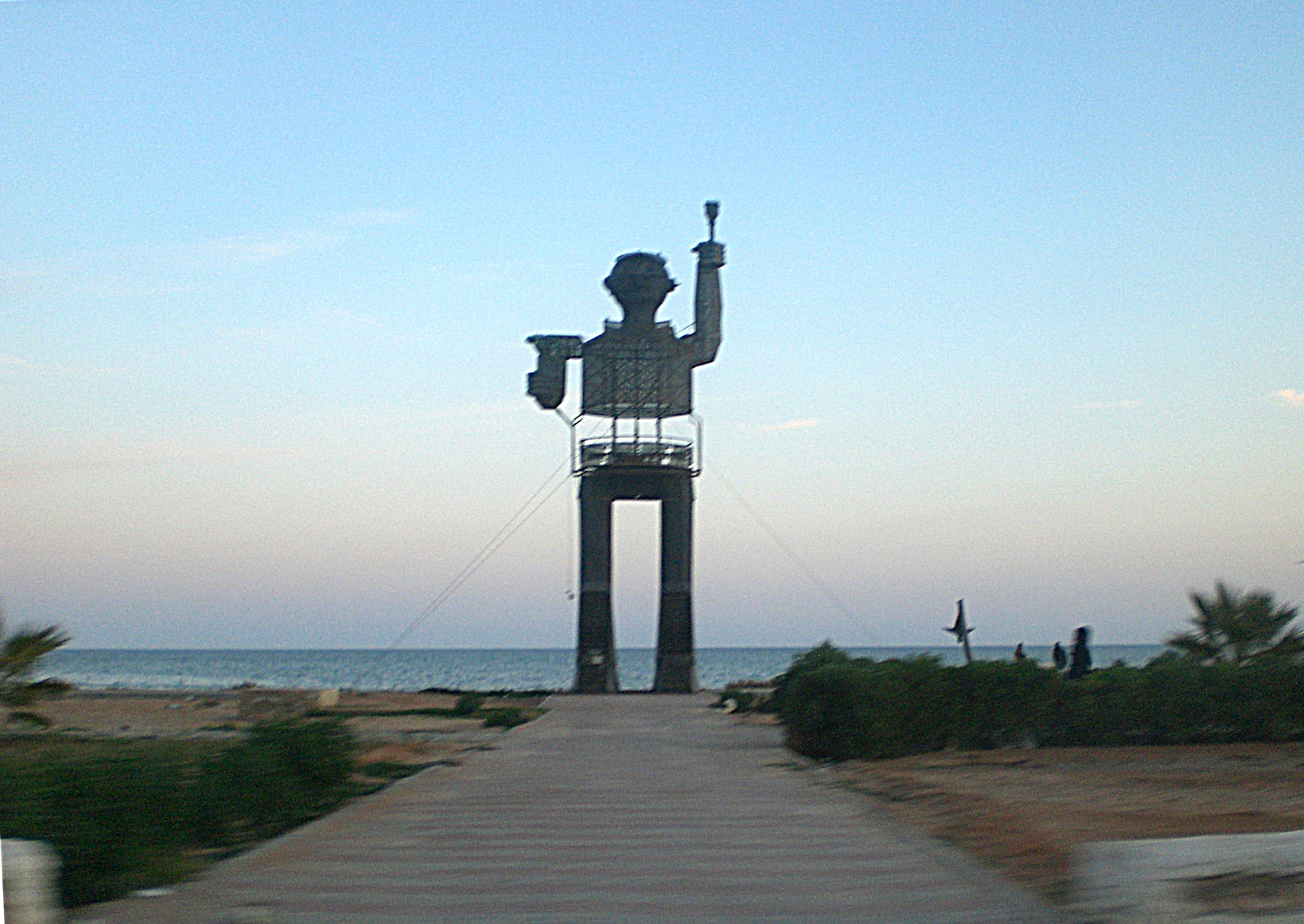 Maharès, Tunisian town